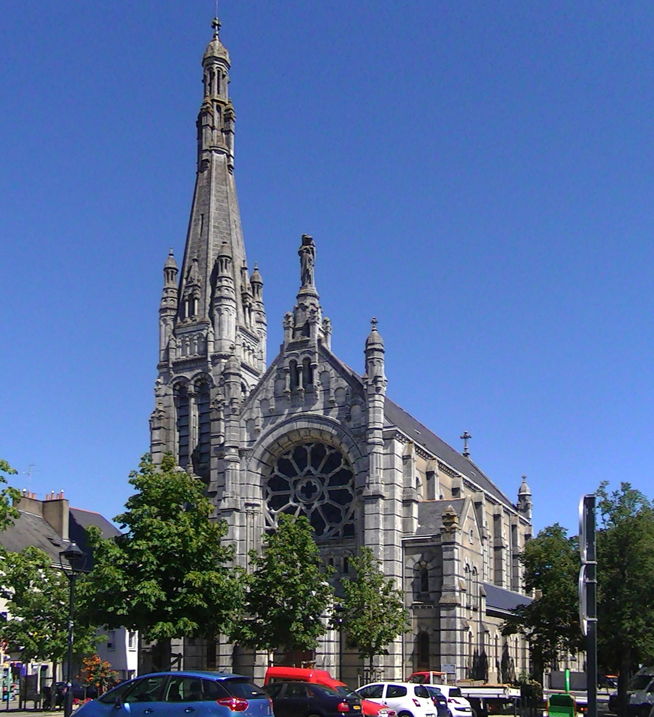 Façade and bell tower of Église Notre-Dame de Toutes-Aides, Nantes